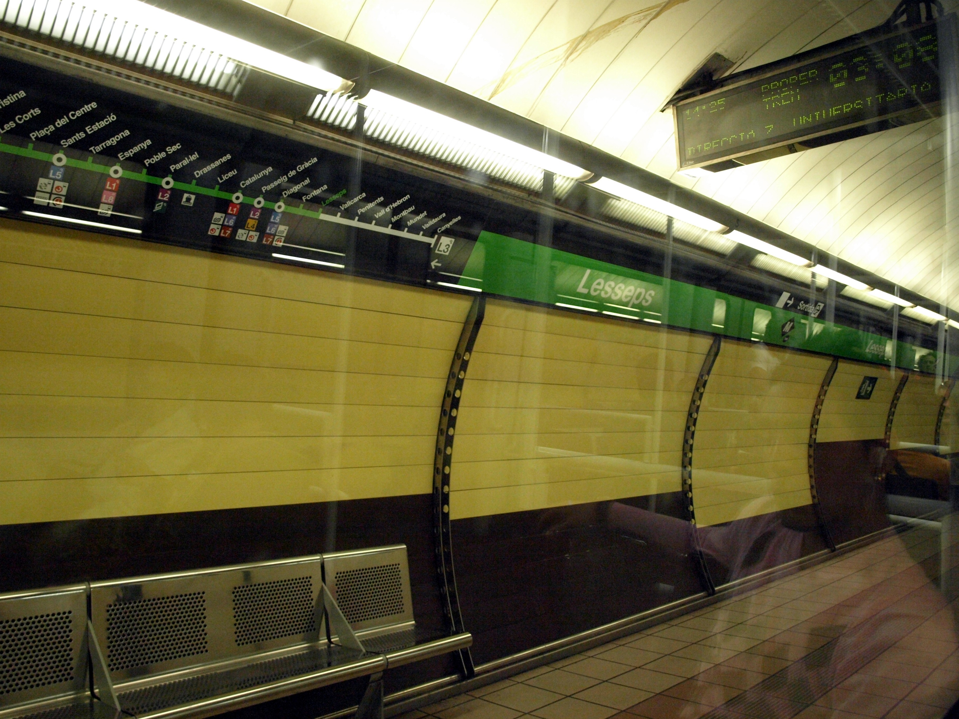 Lesseps Station of Barcelona Underground viewed from one of its trains